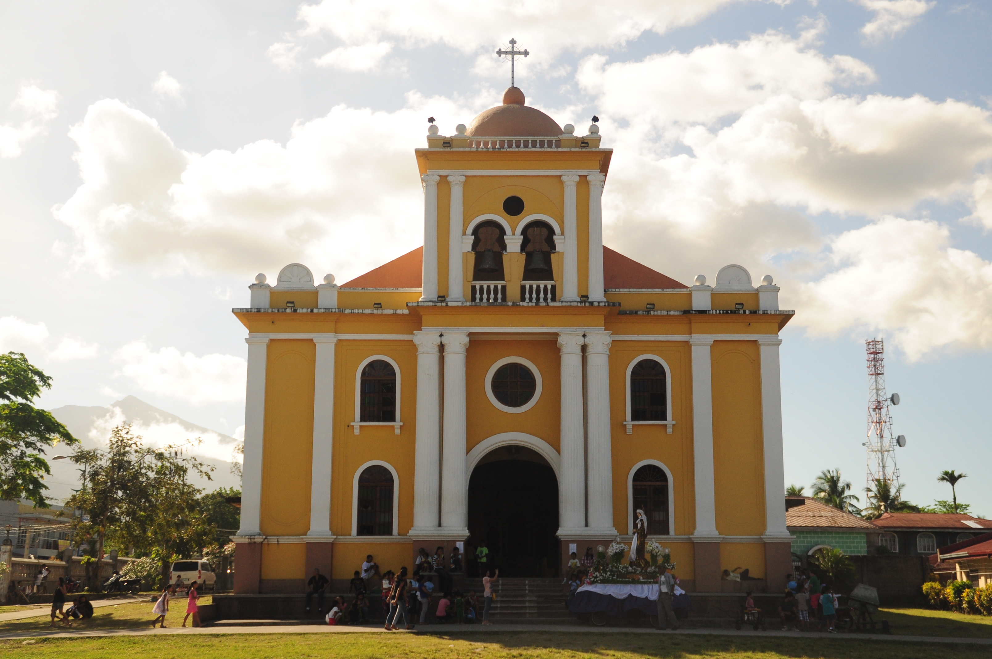 St Clare of Assisi parish church, Tigaon